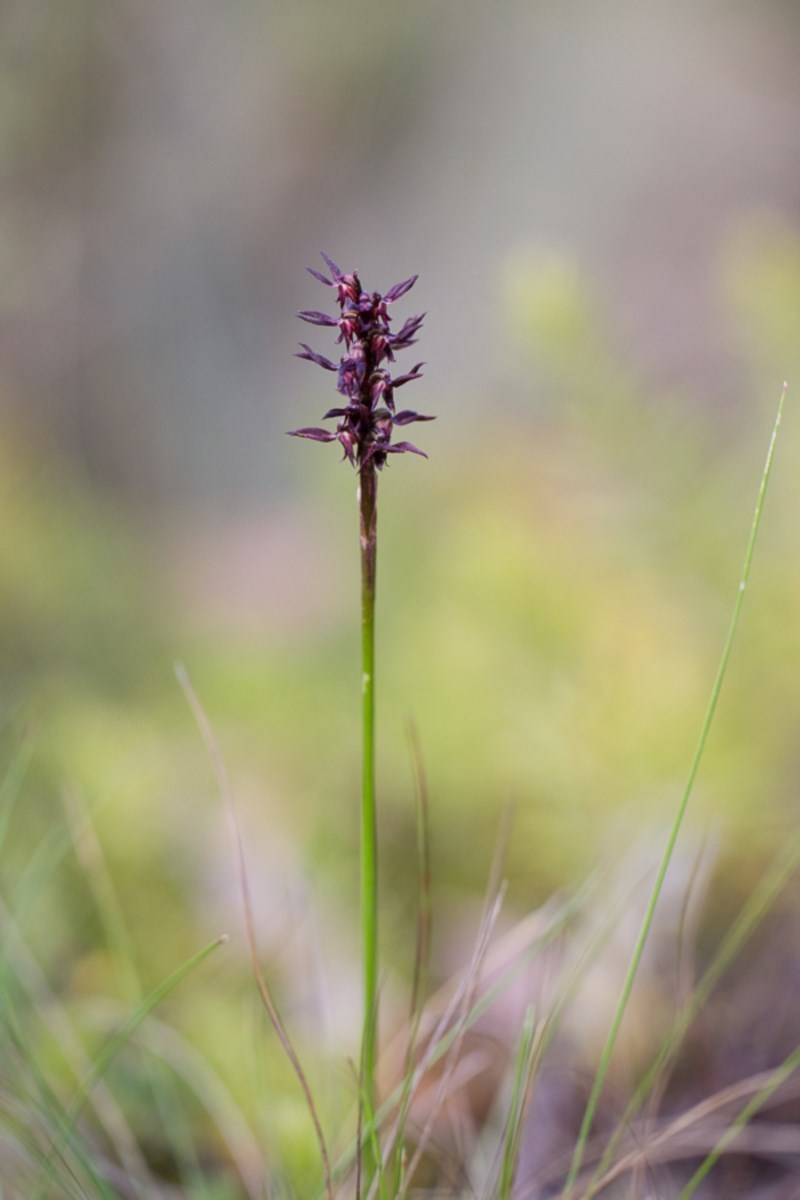 Corunastylis arrecta, also known as Genoplesium arrectum on Mount Clear in the Namadgi National Park